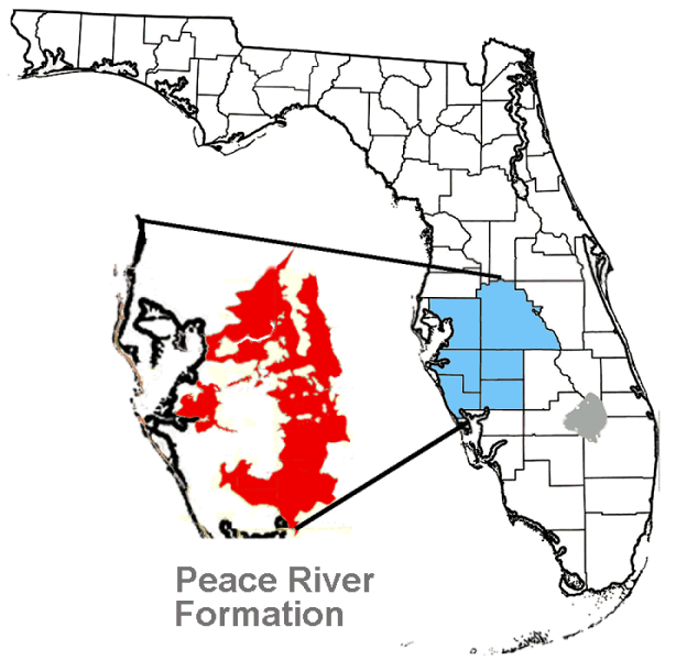 Map depicts extent of Peace River Formation and Bone Valley Bed